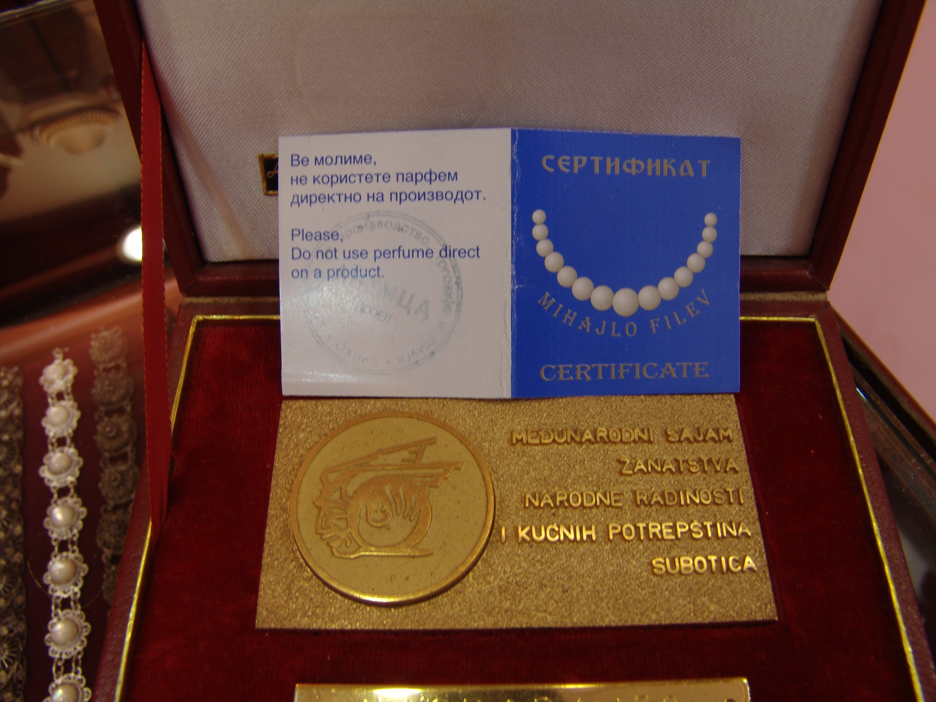 International fair, Subotica